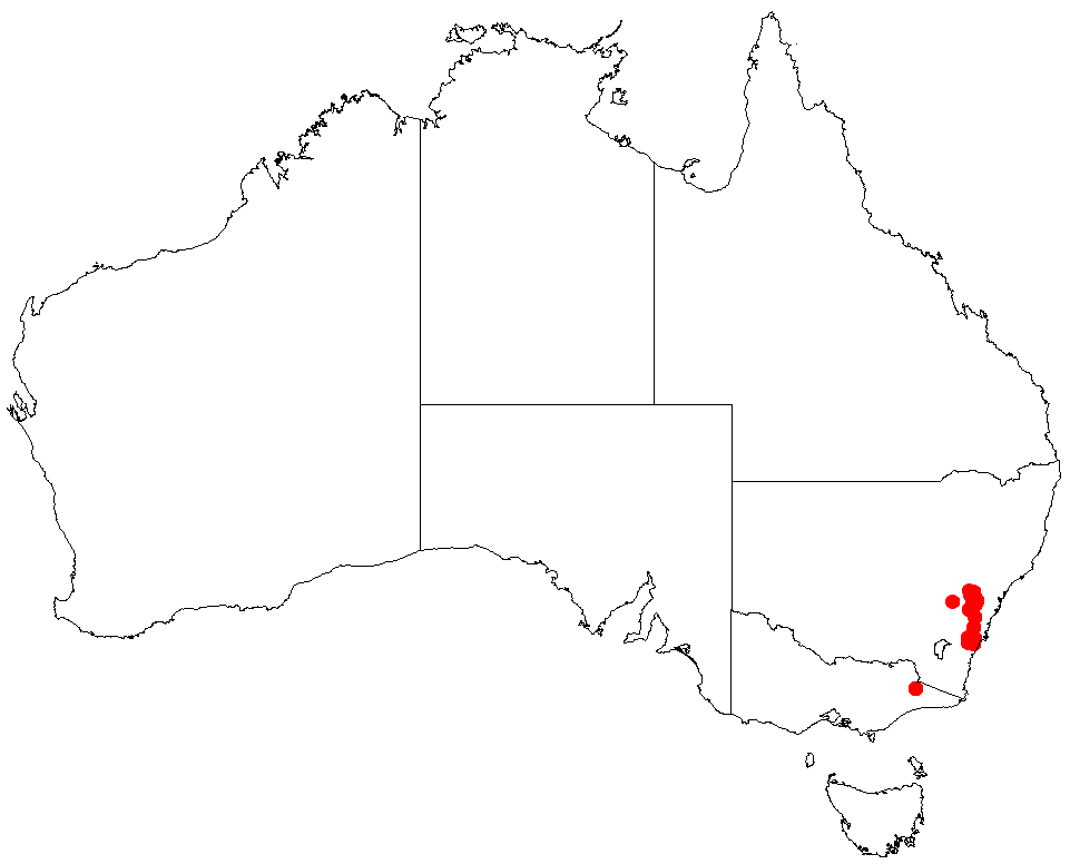 Actinotus forsythii occurrence data downloaded from Australasian Virtual Herbarium on 8 January 2020 using